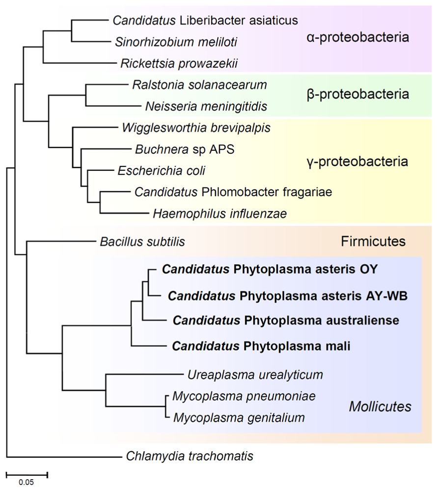 Phylogenetic distance tree constructed by the neighbor-joining method, comparing the 16S rRNA gene sequences of phytoplasmas with those of other bacteria obtained from GenBank. From Oshima et al. 2013 Front. Microbiol., 14 August 2013